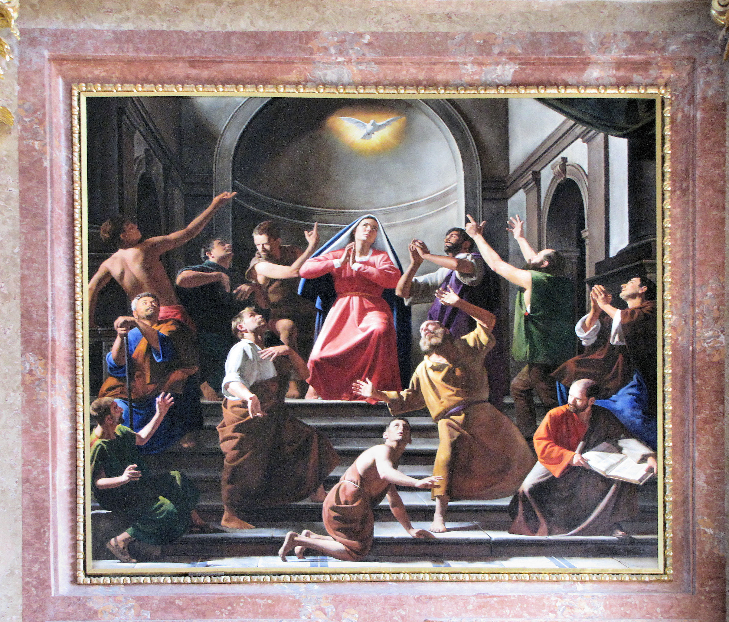 Szombathely, Roman Catholic Cathedral. Painting in the nave by Ádám Kisléghi Nagy.